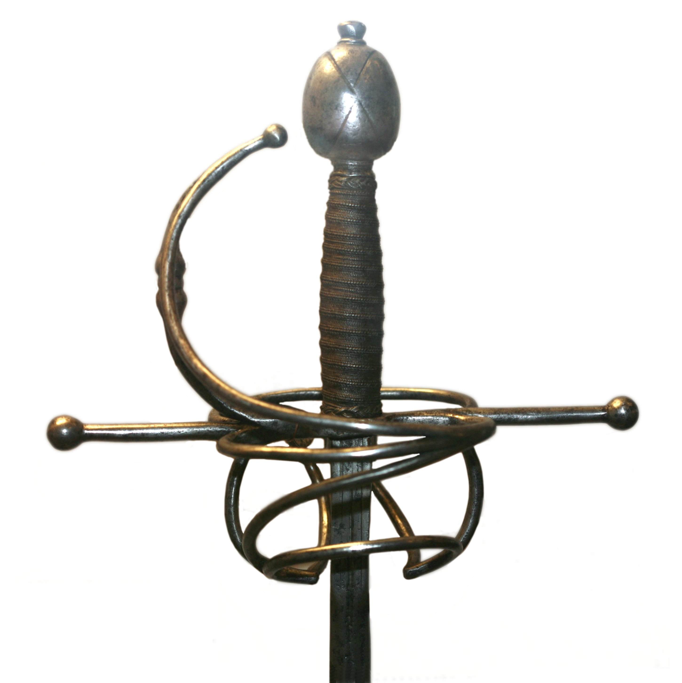 Rapier